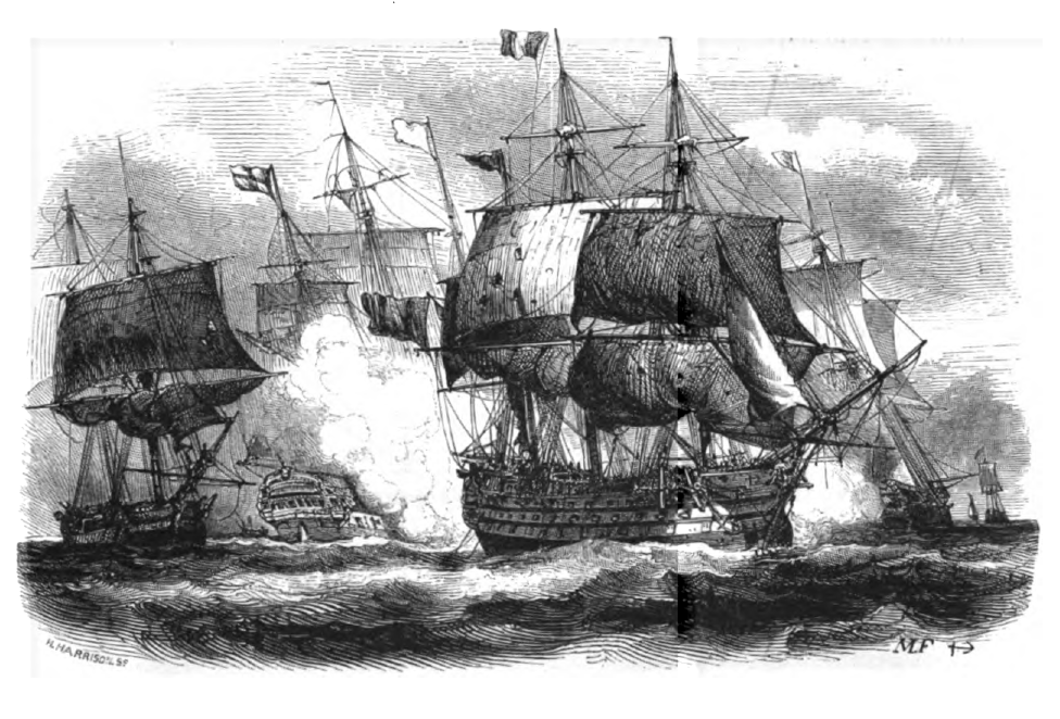 The Montagne at the Combat de Prairial. Illustration from La Marine, by Pacini, p. 71.